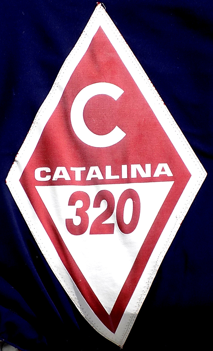 The Catalina 320 class sail badge.